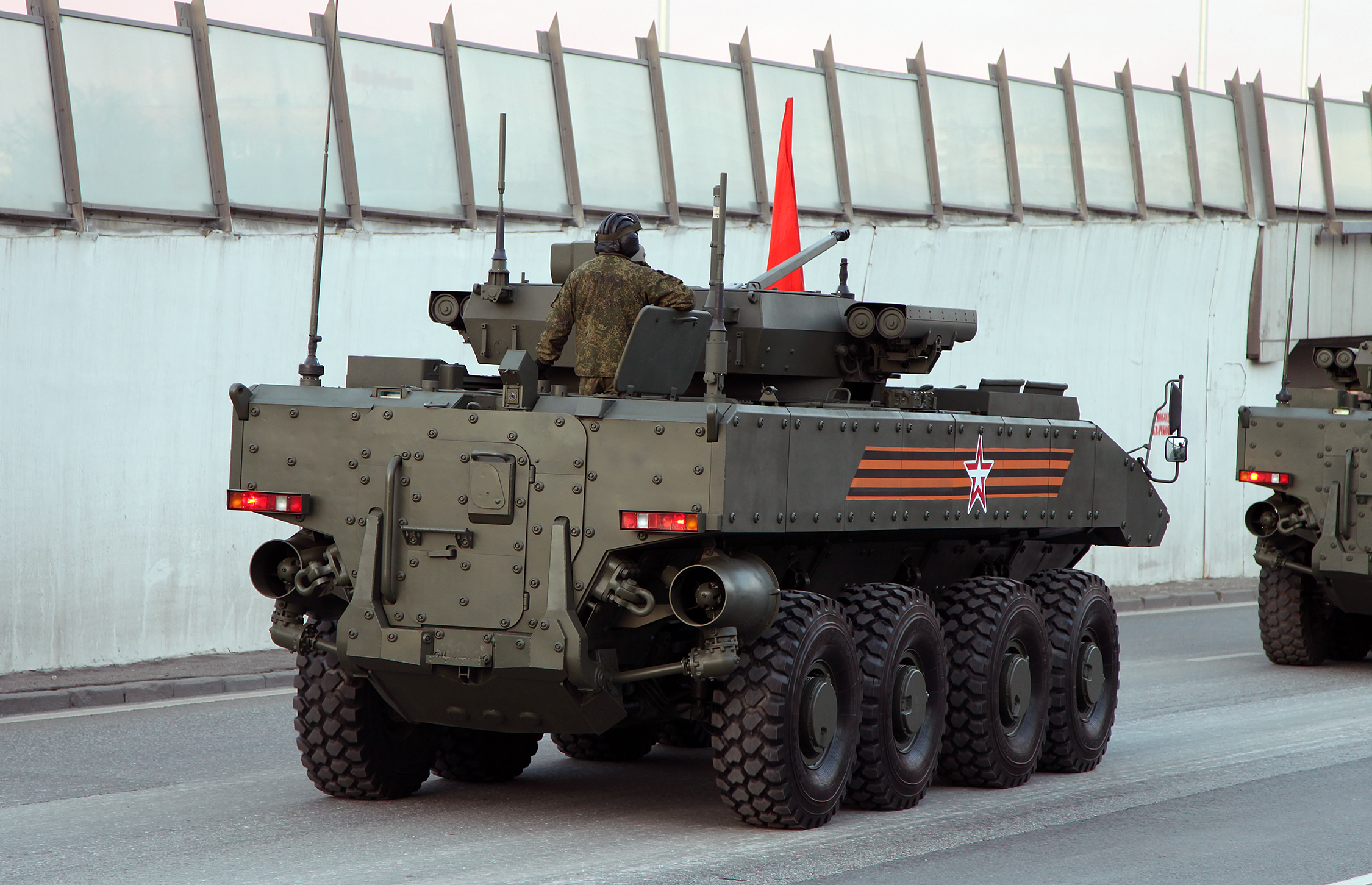 Armoured personnel carrier VPK-7829 Bumerang